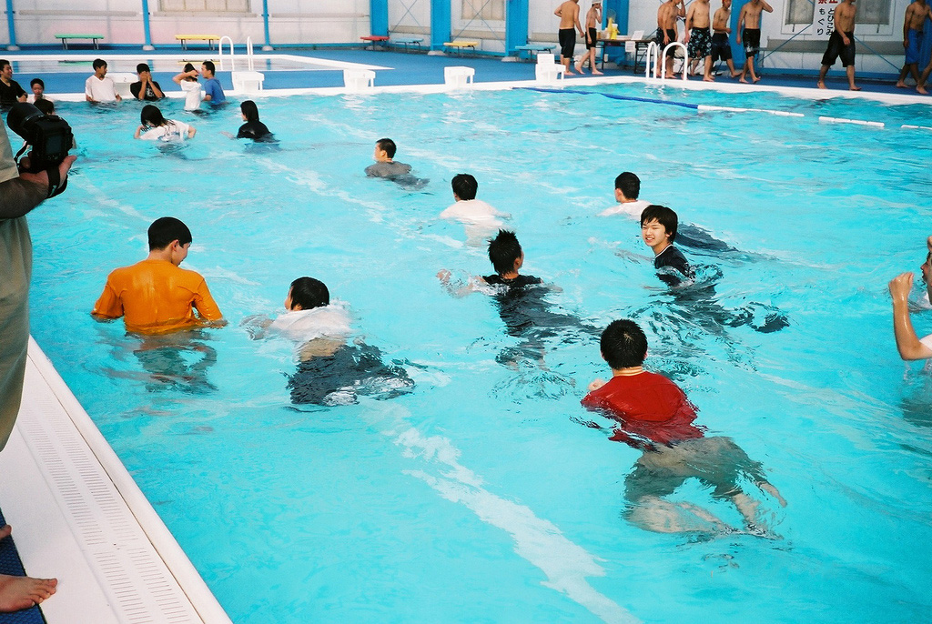 Lifesaving training at 6th Nihon Venture (Boy scout Conference) in Omigawa, Chiba, JAPAN